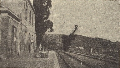 Belver Railway Station, in the Beira Baixa Railway, in Portugal. This photograph was published on the Gazeta dos Caminhos de Ferro magazine No. 1286, of 16th July 1941, and scanned by the Hemeroteca Municipal de Lisboa.